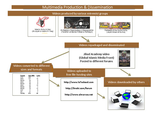 This is a flow chart of how the Global Islamic Media Front and other Islamist propaganda organizations prepare videos for distribution.